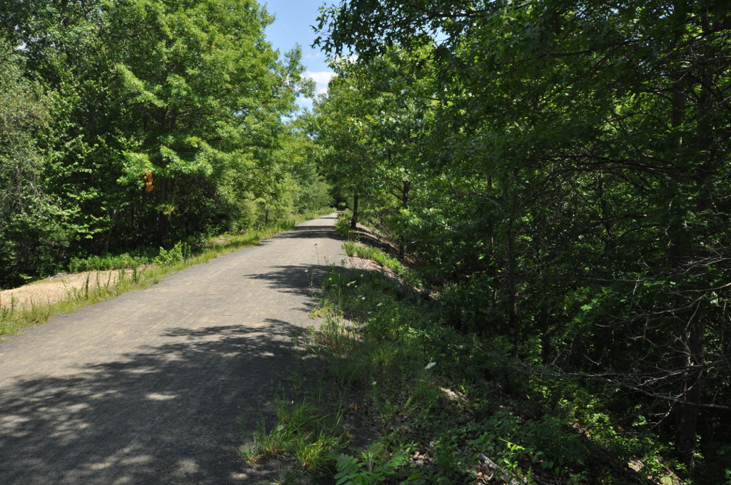 Rapallo Viaduct, on the Air Line State Park Trail, East Hampton, Connecticut.